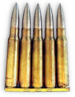 8mm Mauser stripper clip, 1941 Turkish military production